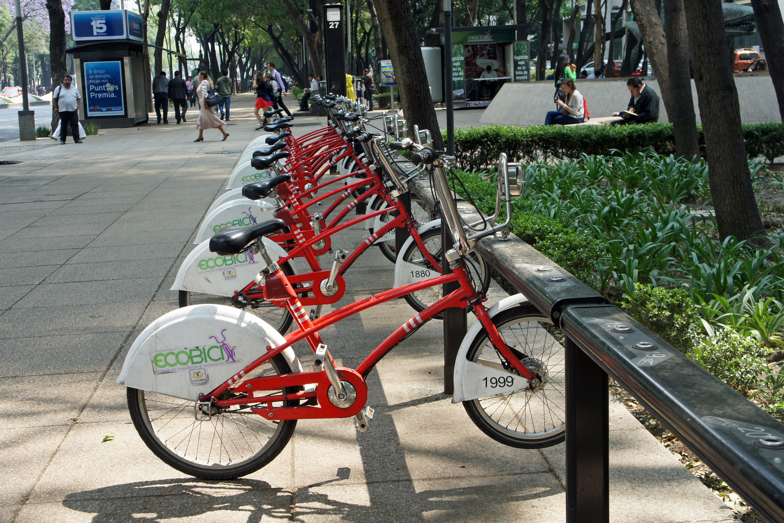 Ecobici docking station 27 at Paseo de la Reforma, Mexico City.